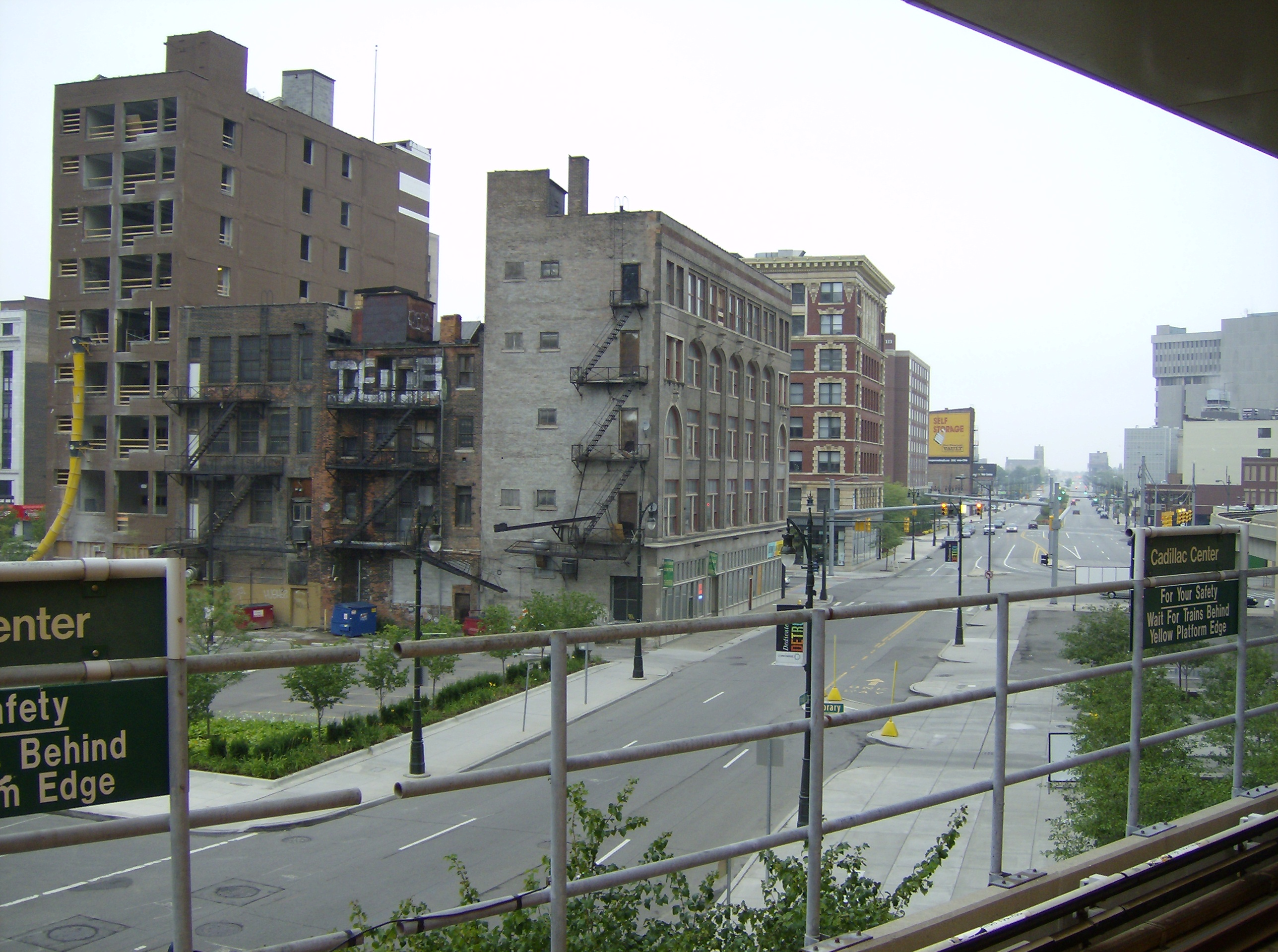 Gratiot from Cadillac Center People Mover station